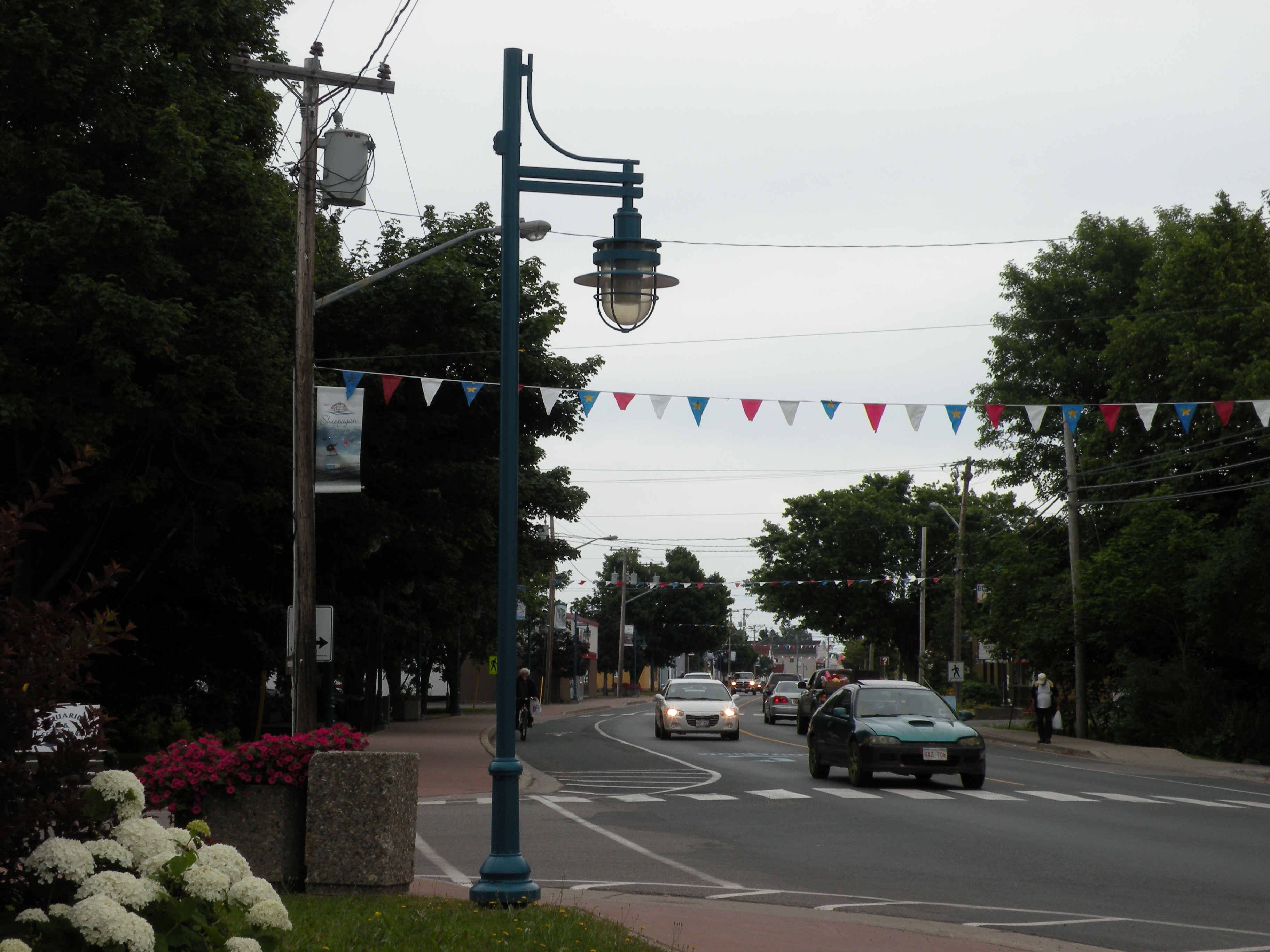 J.D.-Gauthier Boulevard in Shippagan, New Brunswick, Canada.